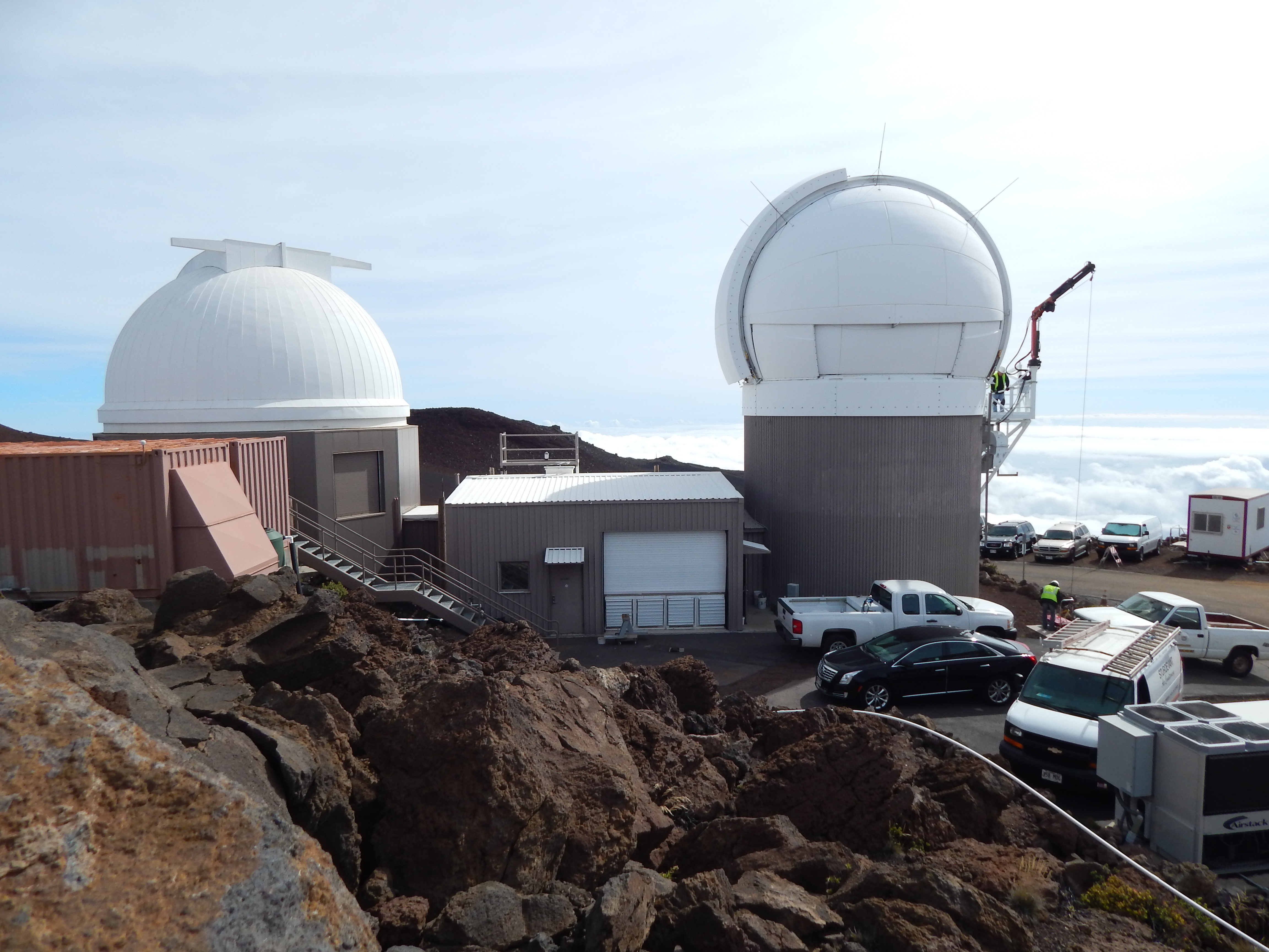 Dubautia menziesii (Kupaoa) Habitat view Pan Starrs telescopes at Science City, Maui, Hawaii. November 06, 2014 #141106-2755 Image Use Policy